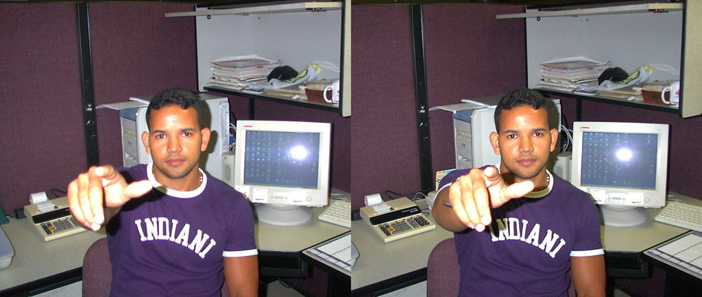 image for stereo viewing with crossed ray paths